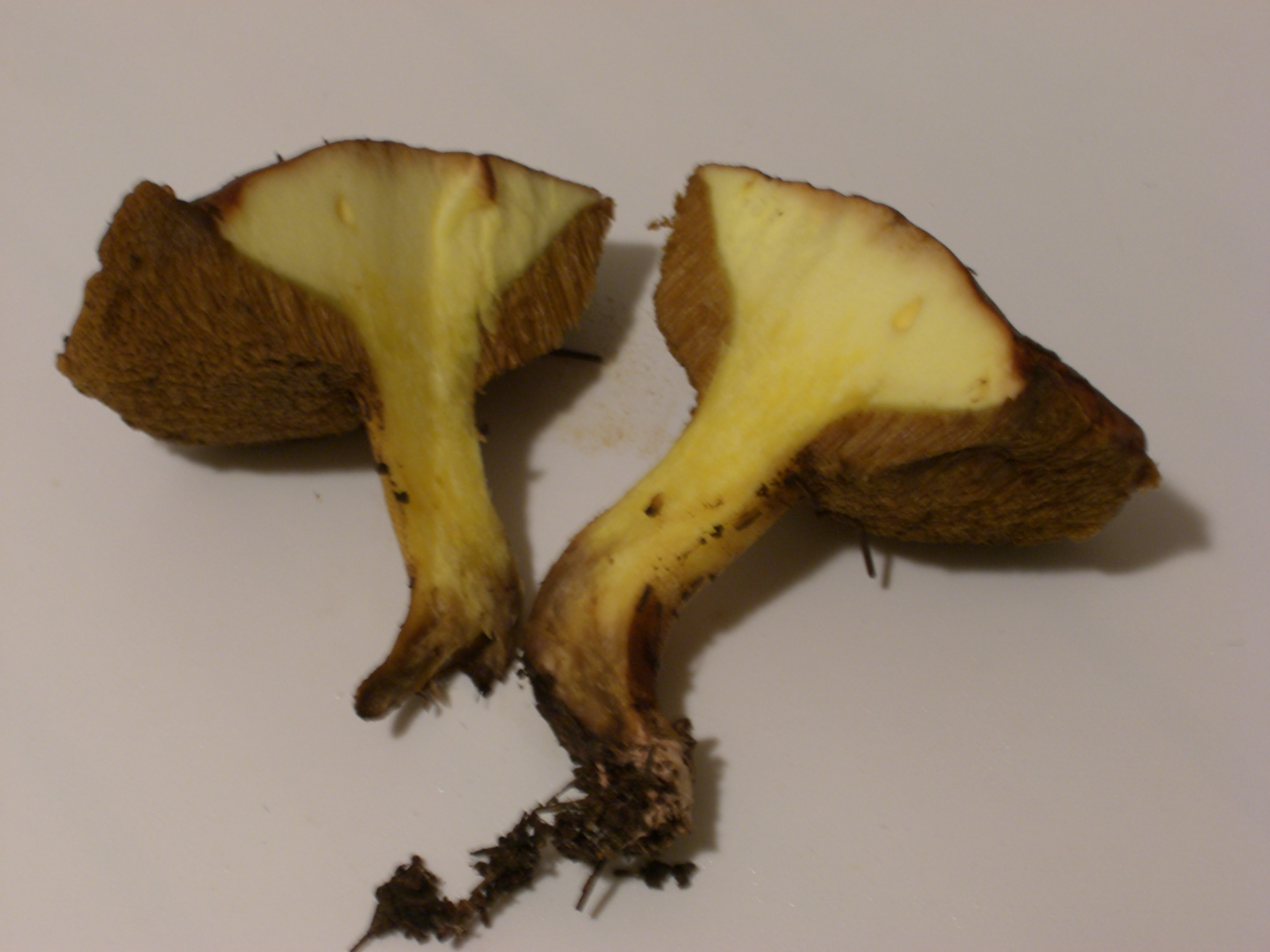 Suillus granulatus - cut in the middle, January 2006, Ben Shemen, Israel.